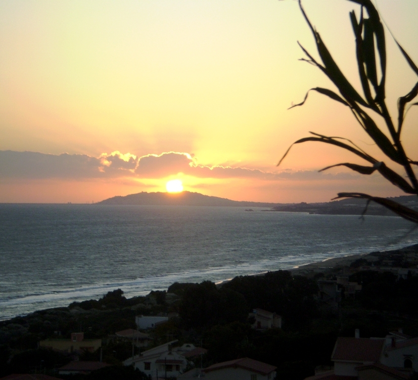 Gela at sunset